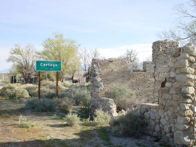 Photographed and uploaded by user:Geographer. Cartago, California, March 25, 2003